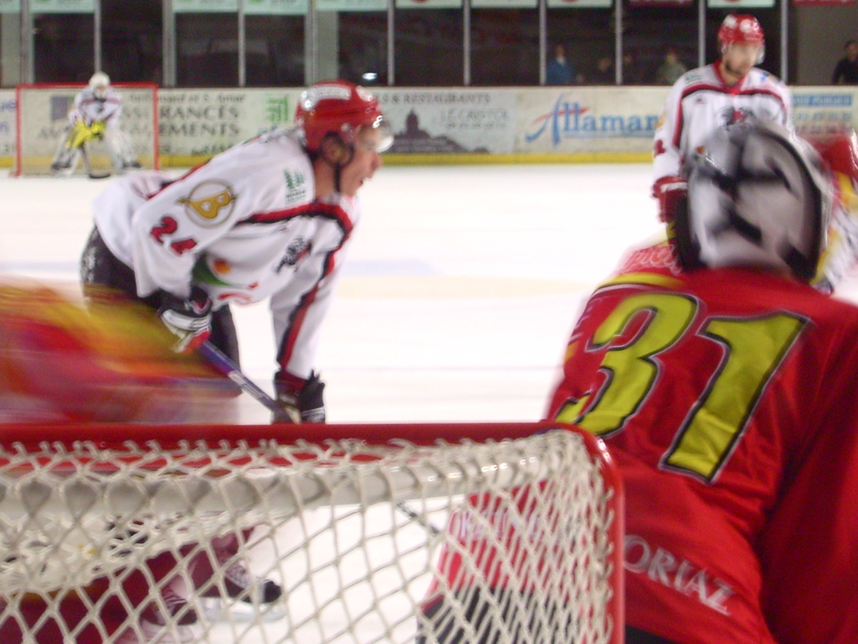 Stanislas Cocetta, french ice hockey player with diables rouges Briançon. Friendly game against Morzine-Avoriaz.